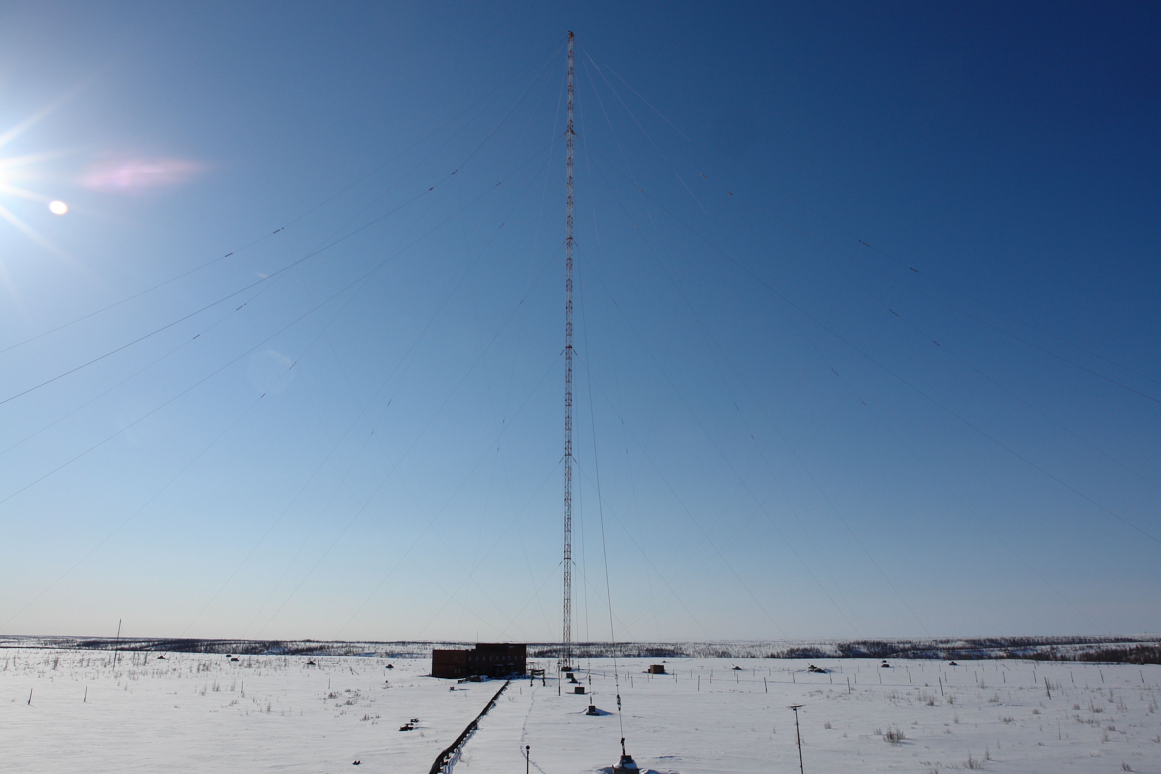 Antenna mast at river Boganida, near the siberian town Dudinka, kilometer 26 of the street between cities Dudinka and Alykel